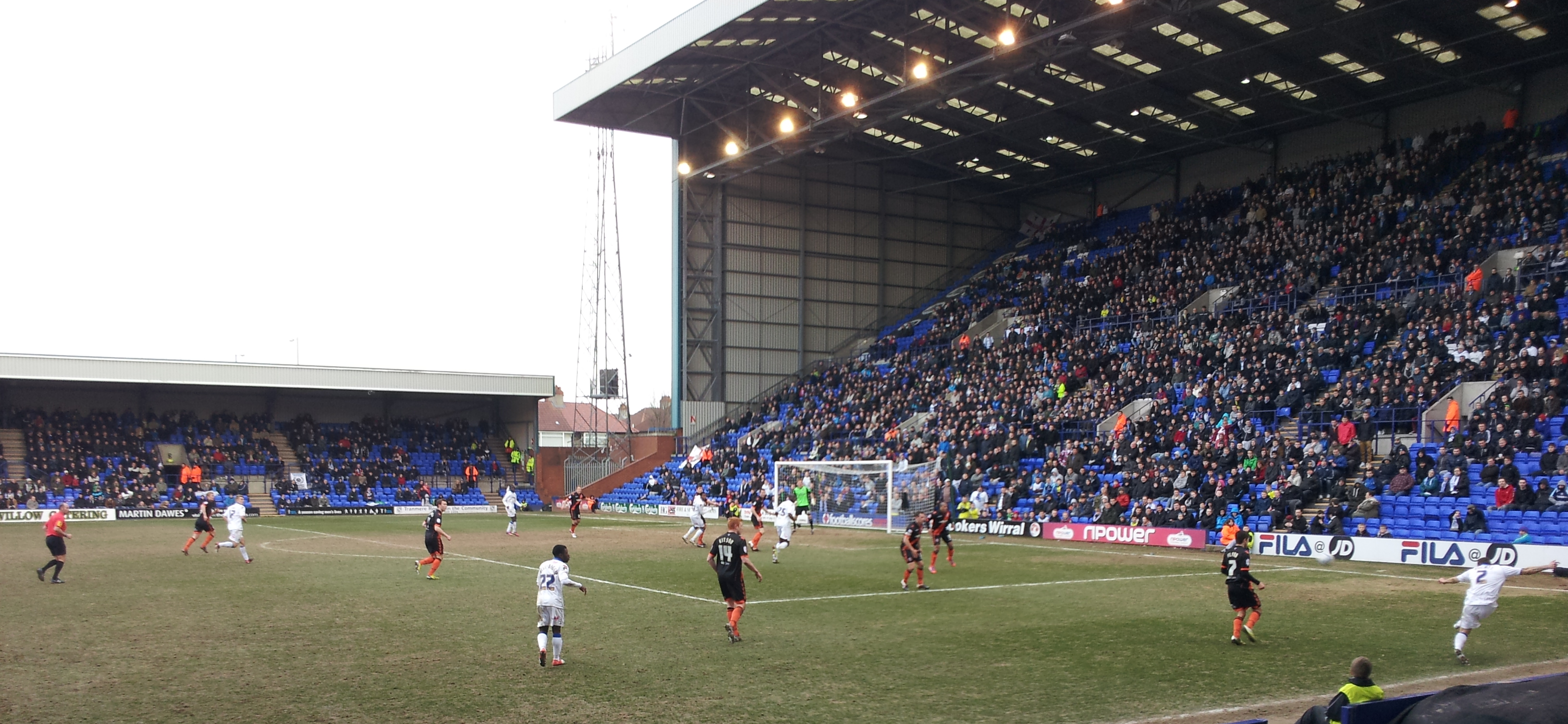 Tranmere Rovers V Sheffield United at Prenton Park 29 March 2013.